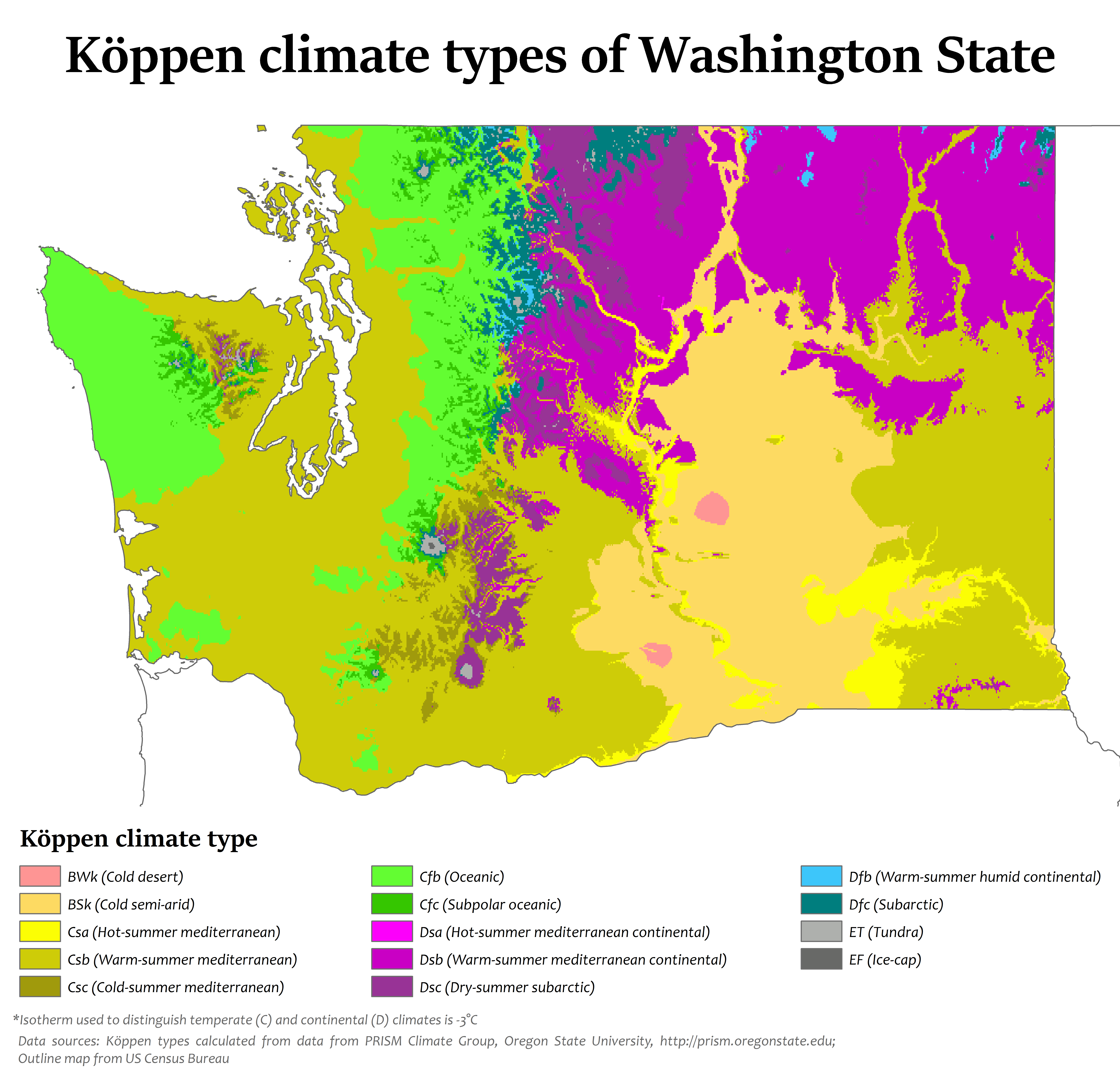 A map of Köppen climate types in Washington state